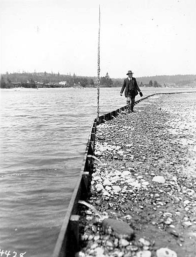 From John Cobb field notebook: Oyster dyke at Poulsbo, Wash. June 1920 Prob. Prof. Kincaid Subjects (LCTGM): Oyster industry--Washington (State)--Poulsbo Subjects (LCSH): Oyster culture--Washington (State)--Poulsbo; Dikes (Engineering)--Washington (State)--Poulsbo Oyster industry--Washington (State)--Poulsbo